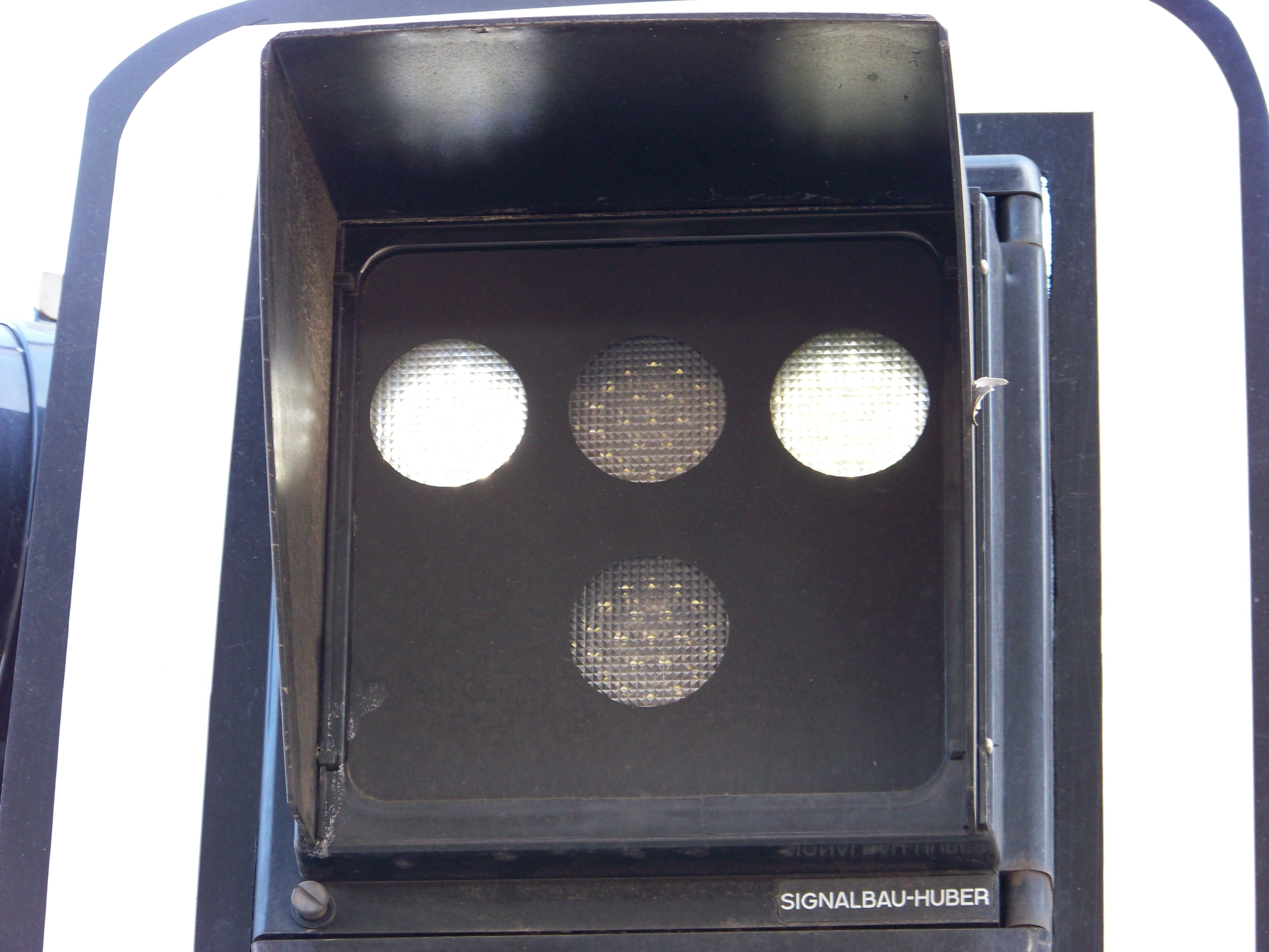 Prague-Libeň, the Czech Republic. Sokolovská street, Balabenka intersection, LED tram signals.